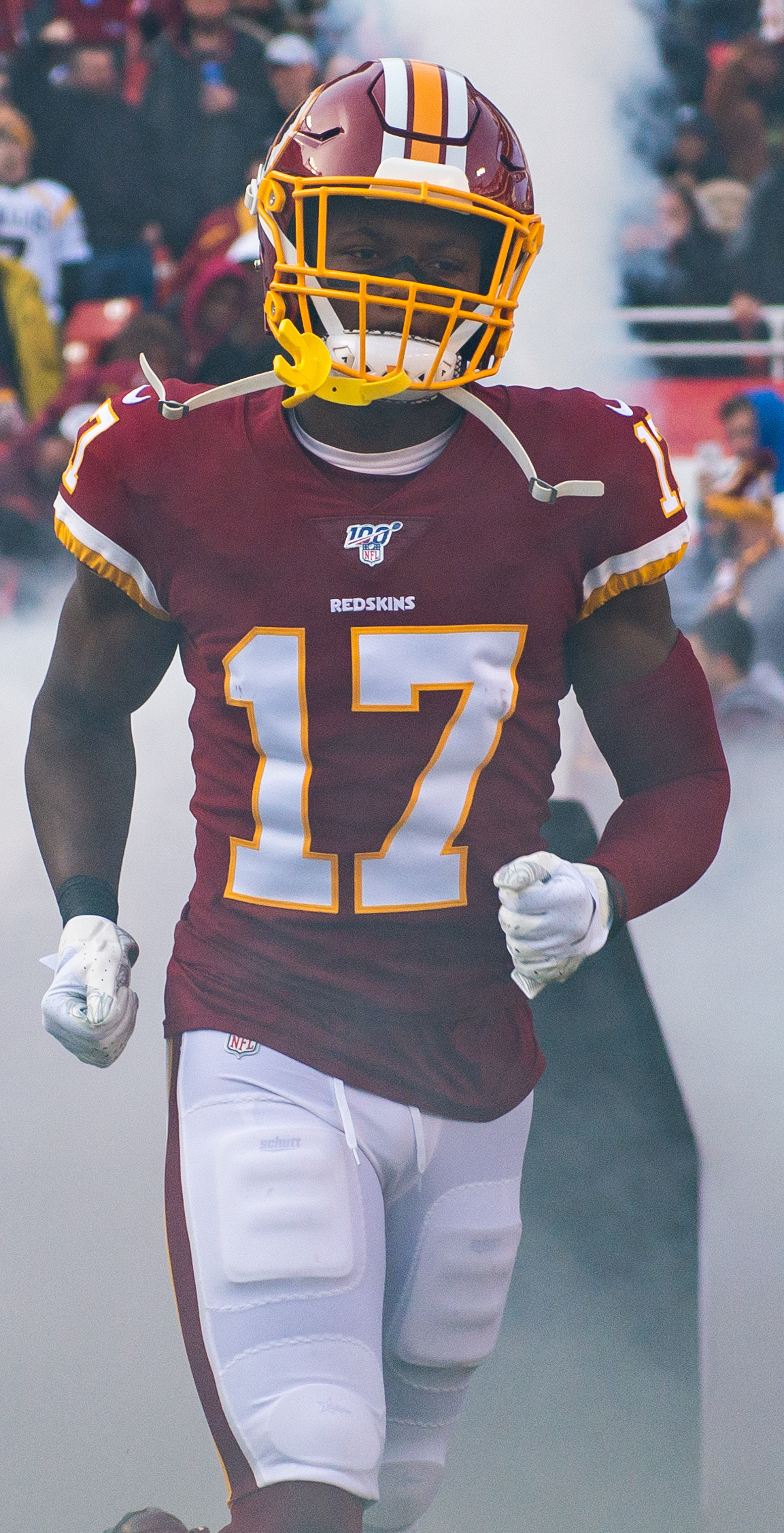 In 2019